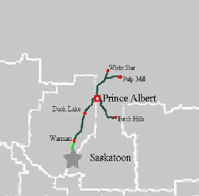 CTRW system map of current operations.